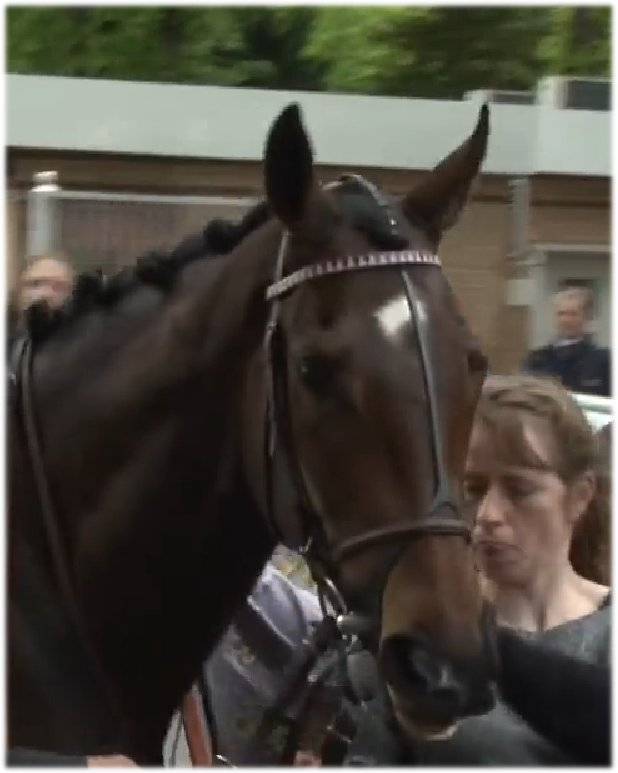 Thoroughbred racemare, Treve, before the 2014 Prix Ganay run in April 2014 at Longchamp. Treve finished second to Cirrus de Aigles, breaking her unbeaten track record.